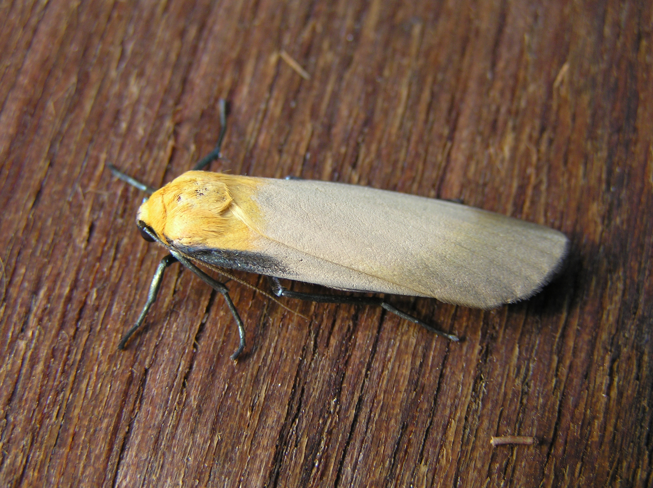 Lithosia quadra male (Zwaakse Weel, the Netherlands)